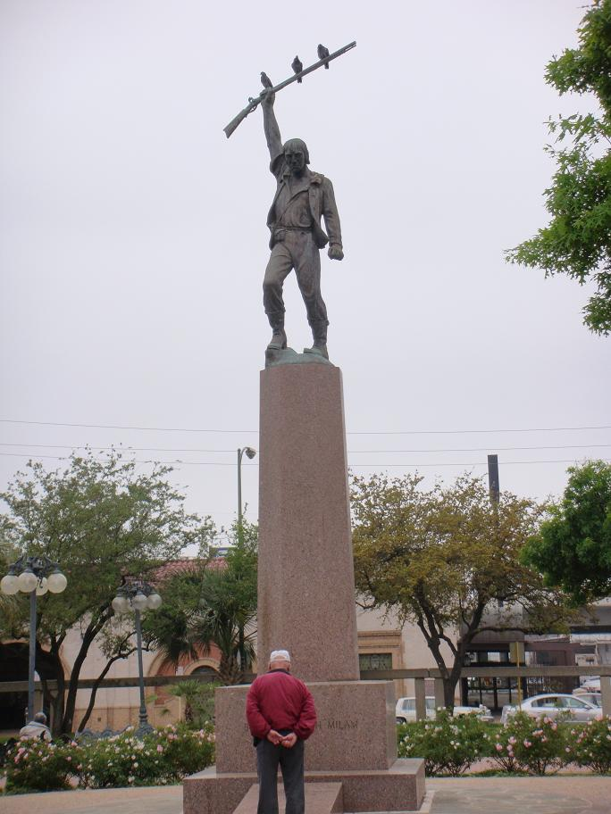 Memorial to Ben Milam (1937) at west end of Ben Milam Park, San Antonio, Texas, United States. Bonnie MacLeary sculpted the statue.